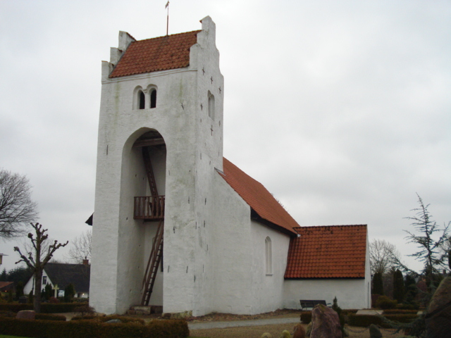 Torrild Kirke / Torrild Church, Jutland, Denmark